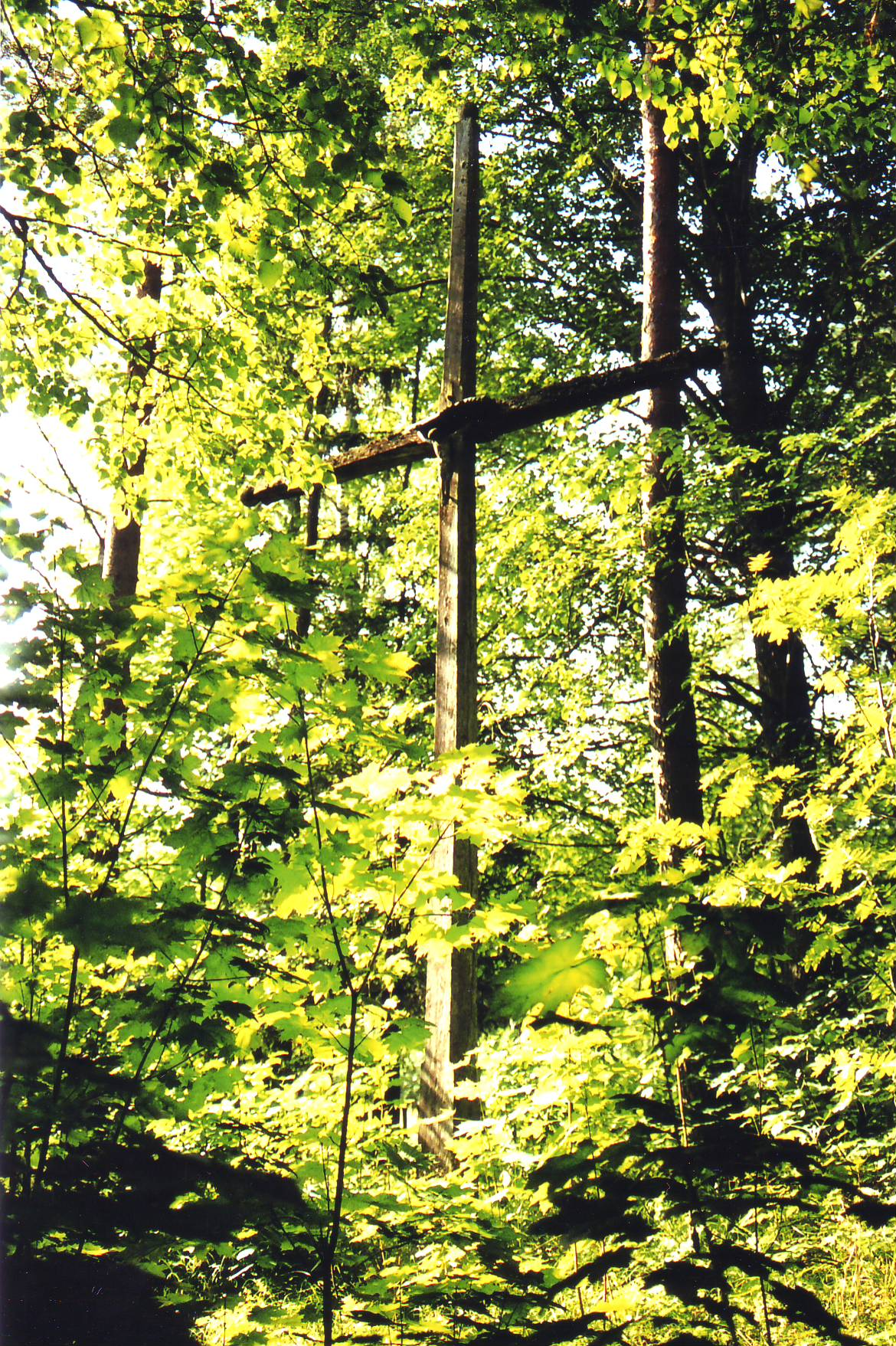 Vaineikių Medsėdžiai, Kretinga district, Lithuania